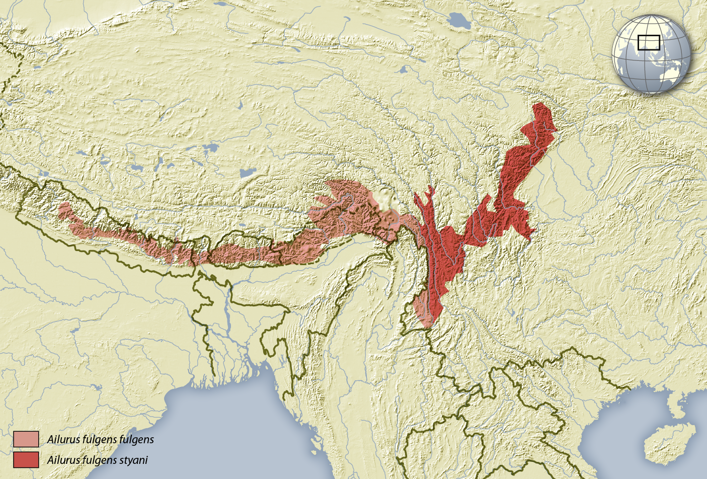 Distribution map of the Rad Panda